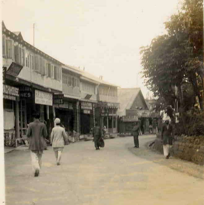 Original description: 1940: Murree, near Rawalpindi. The Mall. I was born (1941) in the British Military Hospital, here in Murree. Today the BMH is the Army School of Signals.